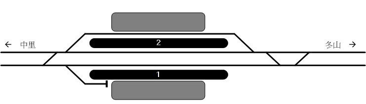 TRA Luodong Station Track layout